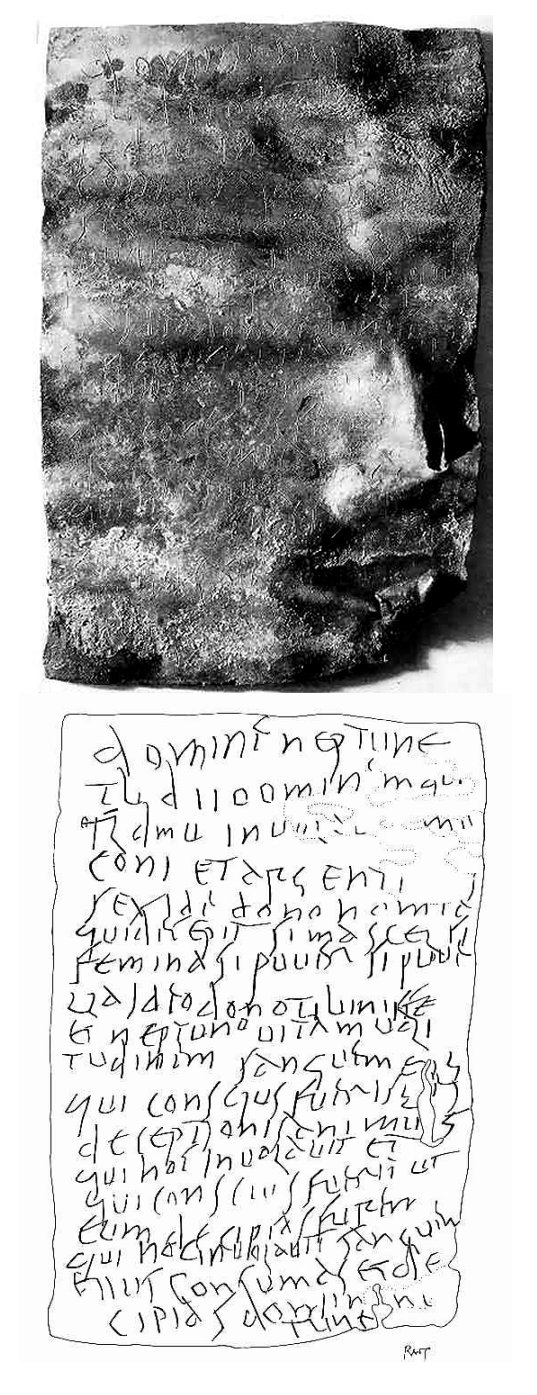 Photograph of the lead tablet, found on the foreshore of the Hamble estuary, Hampshire, UK.